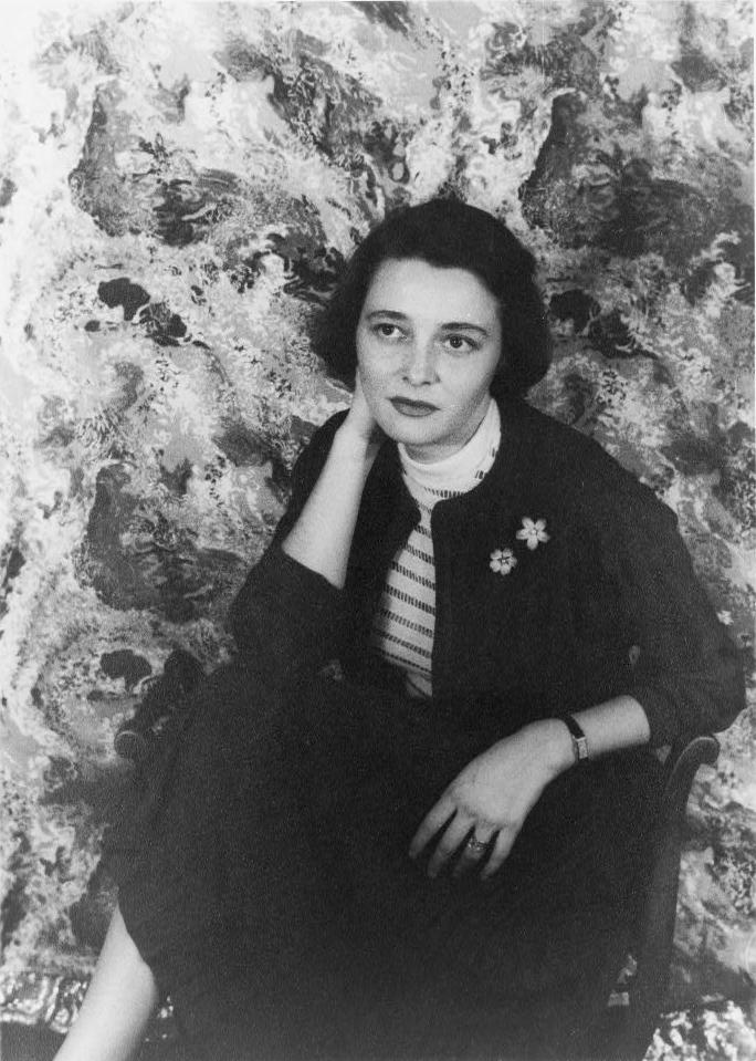 Patricia Neal, American actressPortrait of Patricia Neal (1954 April 20)